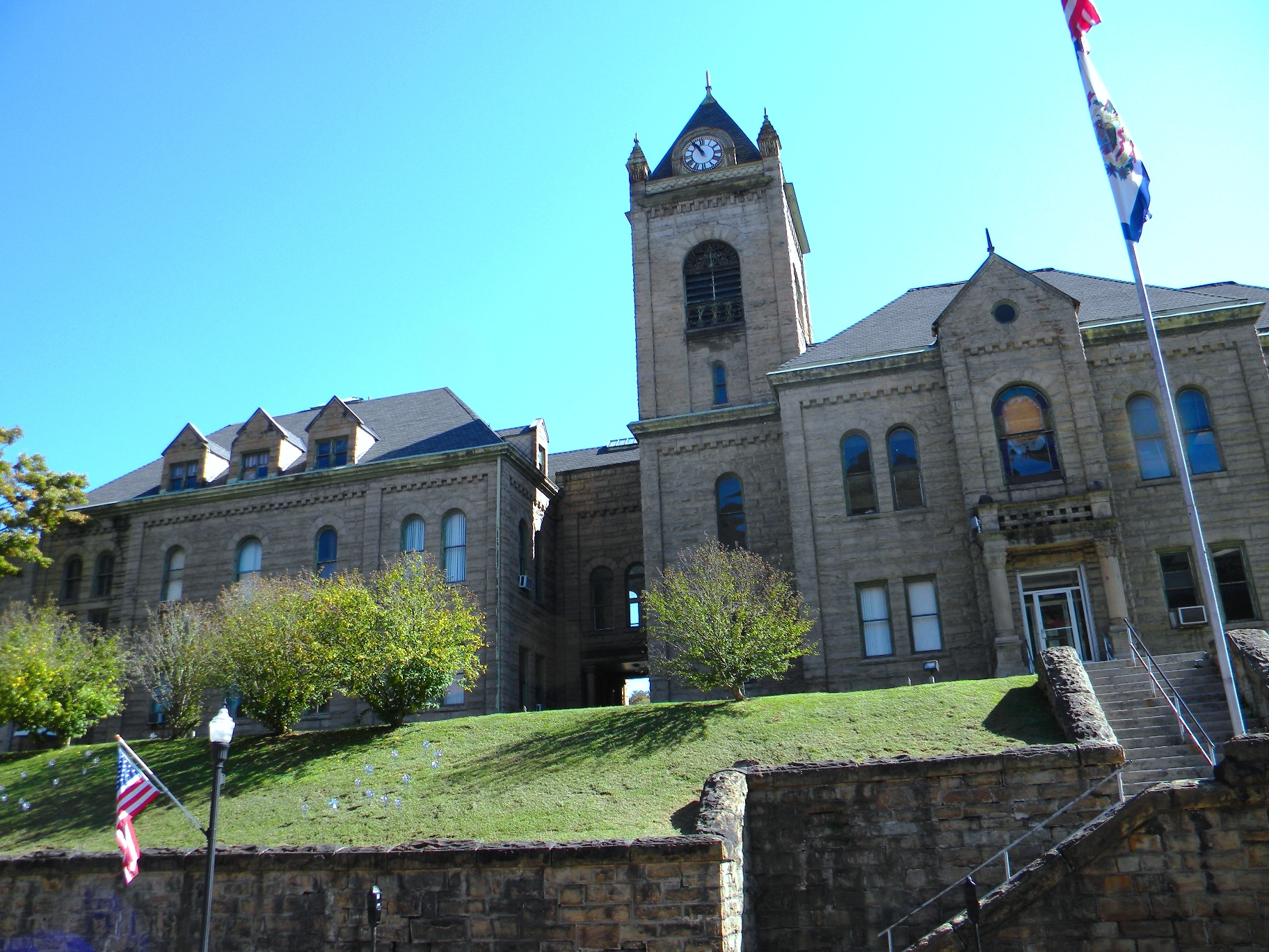 McDowell County WV Court